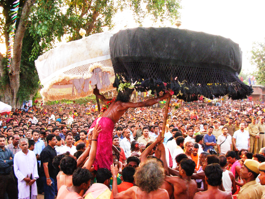 Bali jata is a festival observed dusring Pana sankranti in Lankeswari temple of Sonepur district